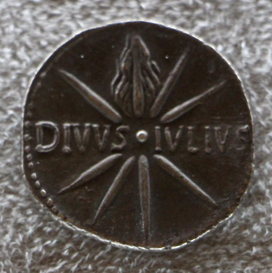 Coins in the Museo archeologico nazionale (Florence)